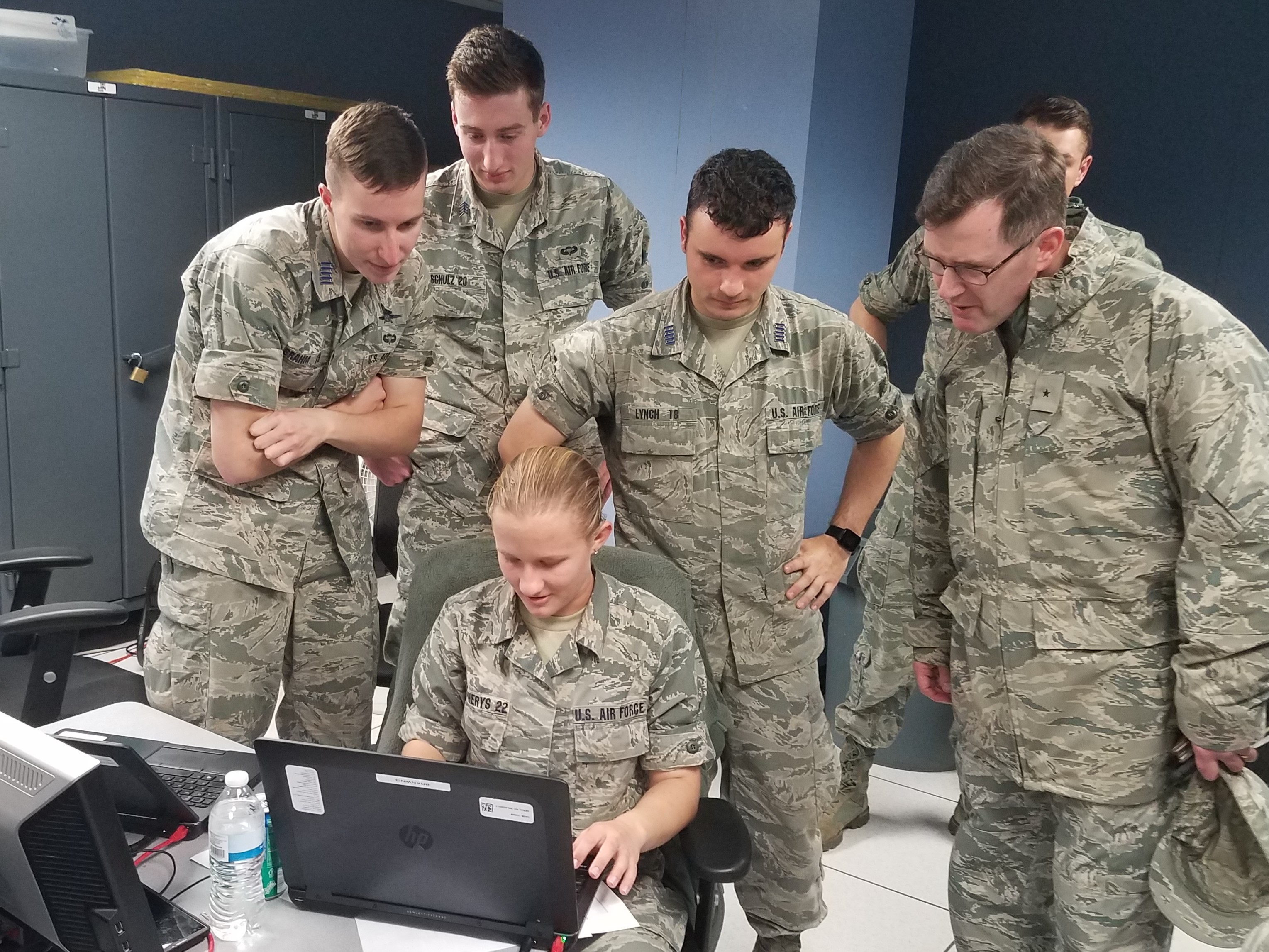 Brigadier General Andrew Armacost (right), Cadet James Brahm (left), Cadet James Lynch (center), Cadet Sears Schulz (back), and Cadet Lauren Humphreys (seated) after the U.S. Air Force Academy Cyber Competition Team defeated the U.S. Military Academy's Competition Cyber Team in a attack/defense-style Capture the Flag exercise on November 2, 2018 at the U.S. Military Academy.